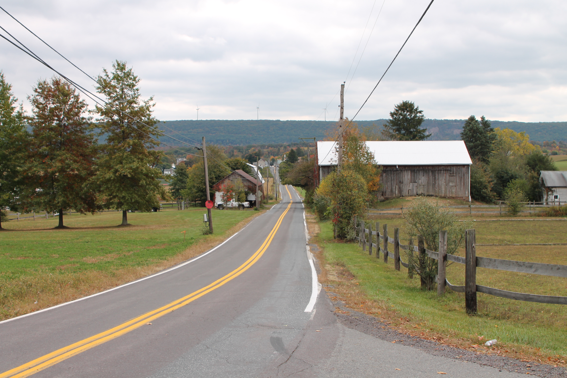 State Route 4033 (Pennsylvania) looking south north of Ringtown